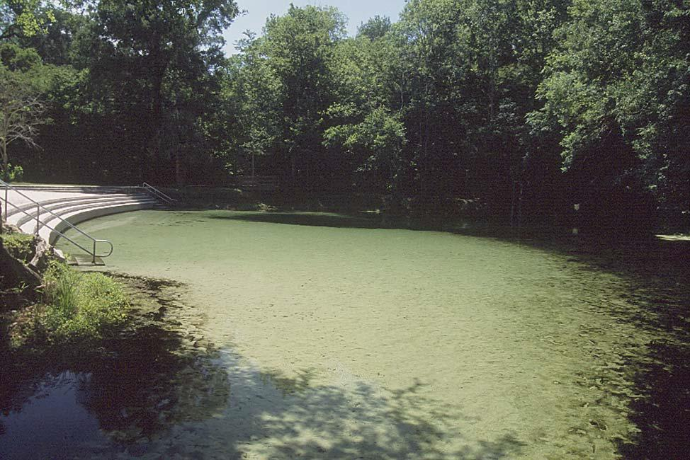 Photograph of Poe Spring in Florida